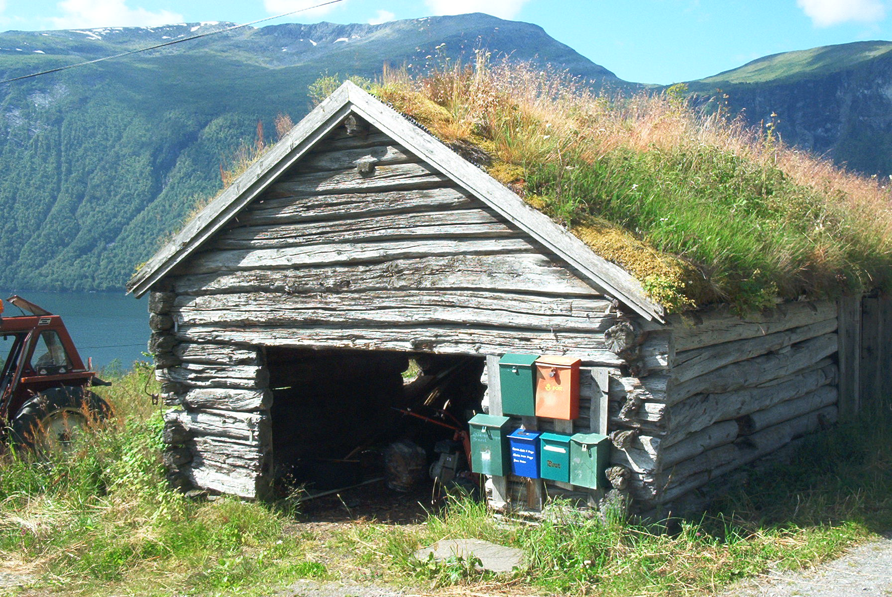 The small red box is the official letter box of the royal Nowegian post